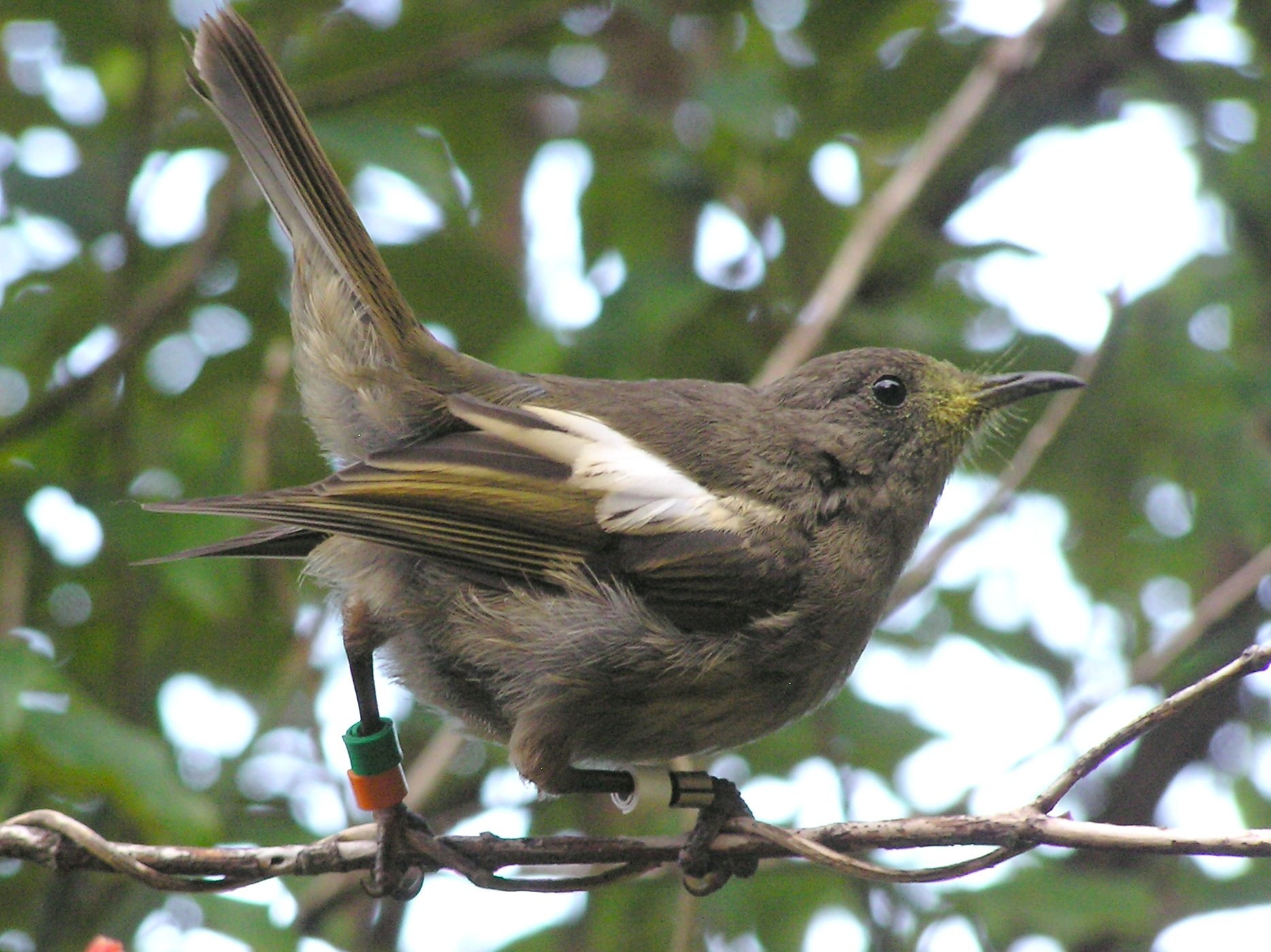 New Zealand female Stitchbird on Wrights Hill, Wellington, adjacent to Karori Wildlife Sanctuary. Showing typical 'tail cocked' stance. (Image needs improvement)